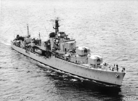 AWM Caption: JERVIS BAY, ACT. 1954-08. AERIAL STARBOARD BOW VIEW OF THE DESTROYER HMAS TOBRUK (I). NOTE THE TWO TWIN 4.5 INCH MARK 6 TURRETS FORWARD, WHICH ARE CONTROLLED BY THE MARK 6 DIRECTOR MOUNTED ABOVE THE BRIDGE. THE WHITE FACED NACELLES ON THE DIRECTOR CONTAIN THE TRANSMITTING AND RECEIVING ANTENNAE FOR THE TYPE 275 GUNNERY RADAR. SINGLE 40 MM BOFORS MARK 7 AA GUNS CAN BE SEEN BEHIND B TURRET, IN THE BRIDGE WINGS AND ABAFT THE FUNNEL. TWIN BOFORS GUNS IN STABILISED TACHYMETRIC ANTI AIRCRAFT GUN (STAAG) MOUNTINGS ARE FITTED AMIDSHIPS WITH TWO FURTHER MOUNTINGS AFT. NOTE THE TYPE 262 FIRE CONTROL RADAR ON THE MOUNTINGS. A TYPE 293 AIR/SURFACE SEARCH RADAR AERIAL IS AT THE MASTHEAD. THE NUMERAL ON HER FUNNEL INDICATES THAT SHE IS PART OF THE 10TH DESTROYER FLOTILLA; THE BLACK BAND AT THE TOP OF HER FUNNEL AND THE ABSENCE OF PENNANT NUMBER ON HER HULL INDICATE THAT SHE IS ACTUALLY THE SENIOR SHIP OF THE FLOTILLA. (NAVAL HISTORICAL COLLECTION)